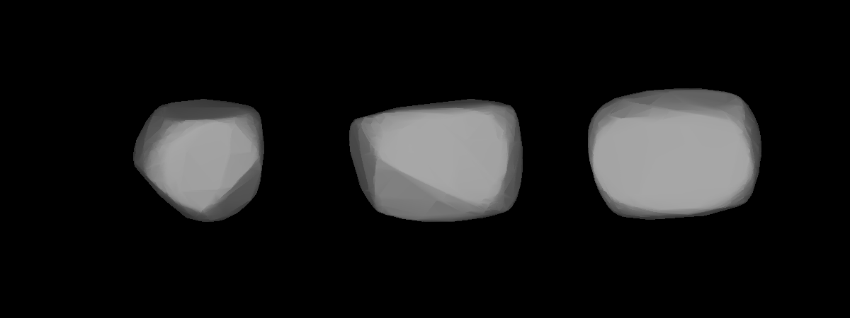 A three-dimensional model of 519 Sylvania that was computed using light curve inversion techniques.